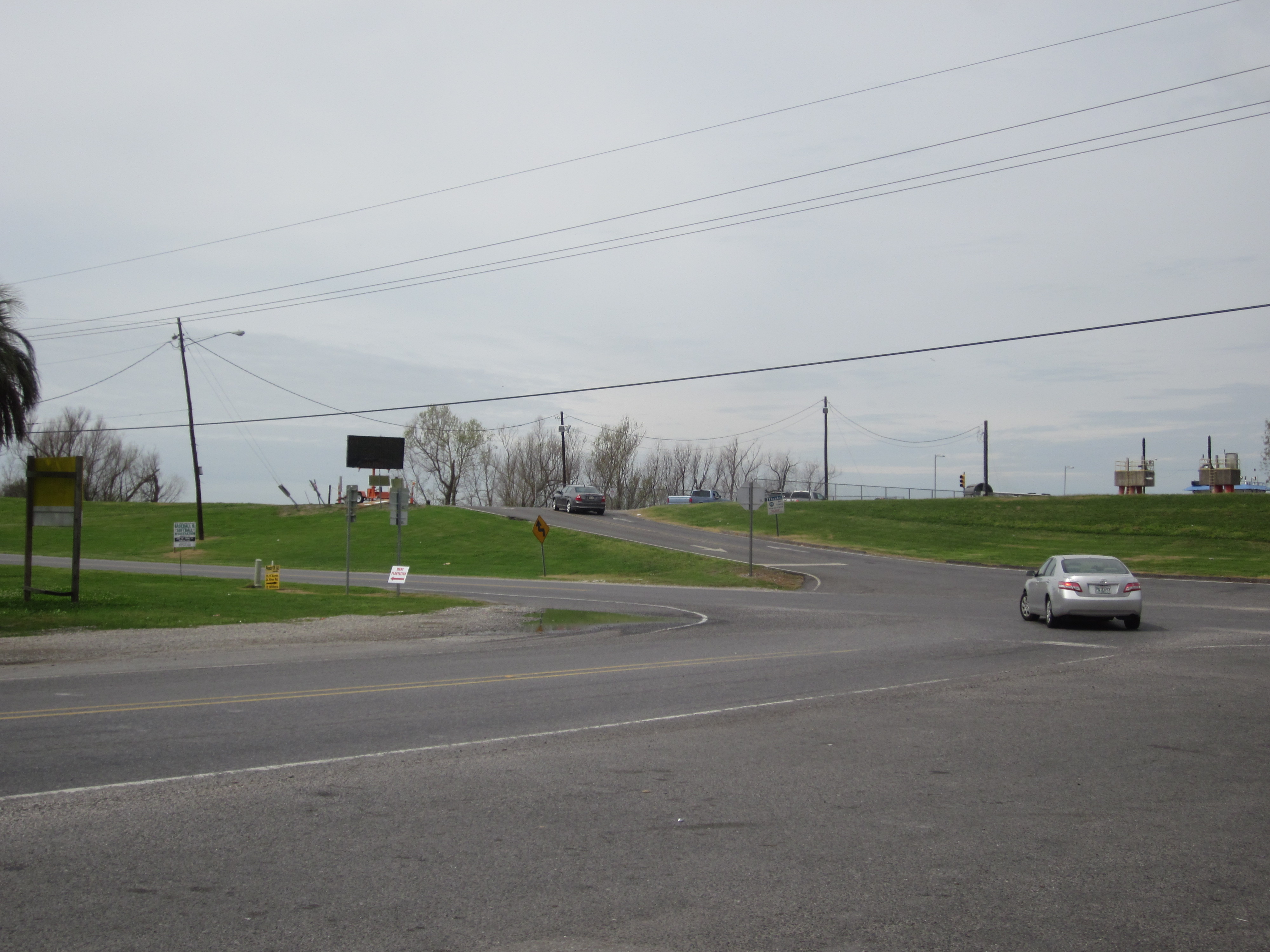 Scarsdale, Plaquemines Parish, Louisiana. Landing for the Ferry across the Mississippi River to Belle Chasse Lousiana.